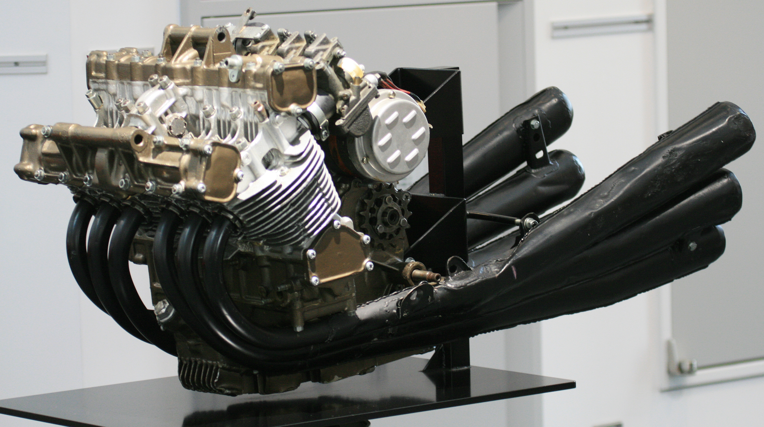 1967 Honda RC174E engineAir-cooled 297.06cc In-line 6-cylinder engine, DOHC. 7-speed transmission. 65PS / 17,000rpm